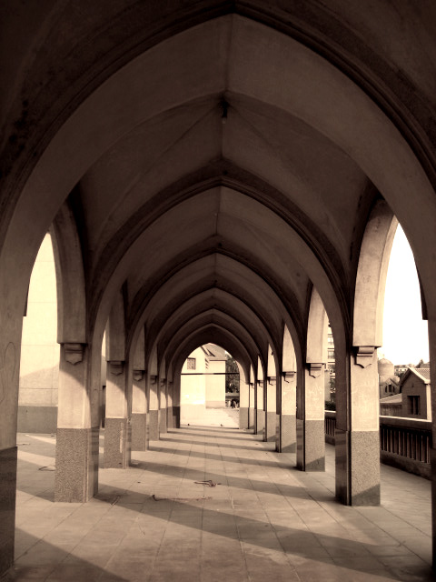 "A Path" along the side of St. Mark's Coptic Orthodox Cathedral in Abbassiyah, Cairo. It is by far the largest Cathedral in Africa and the Middle East.